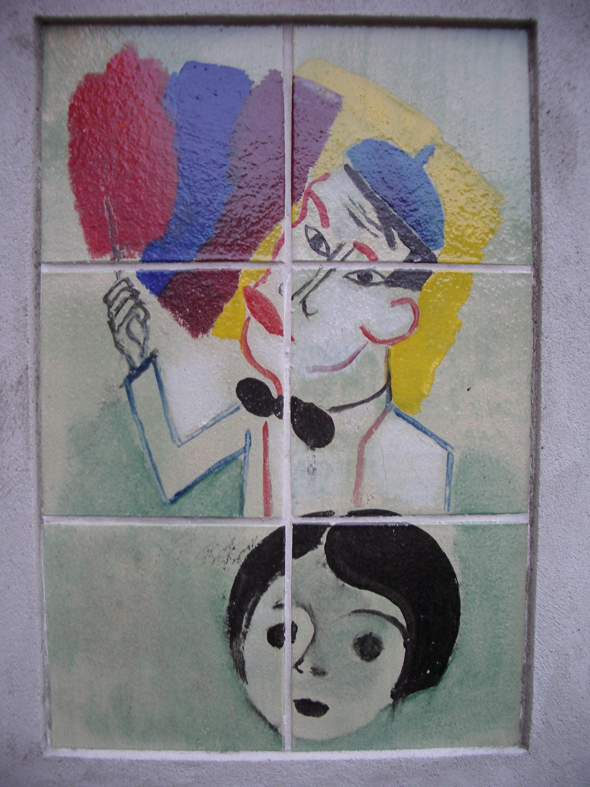 Acke Oldenburg´s Sven X-et Erixon and Karin Boye, Huddinge, Sweden